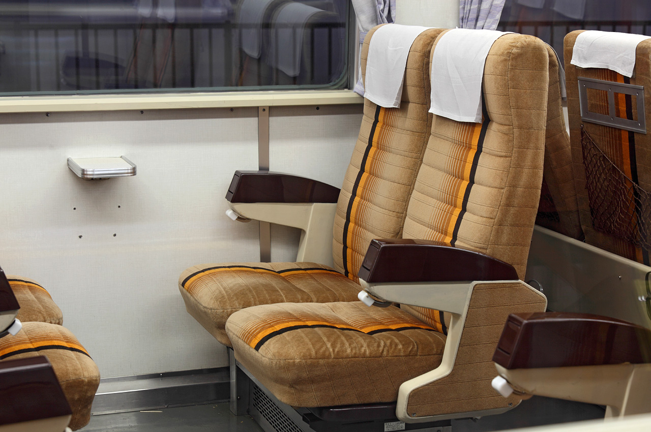 Standard-class seating of JR Hokkaido KiHa 183-1 DMU car. These seats were originally used in 781 series EMUs.